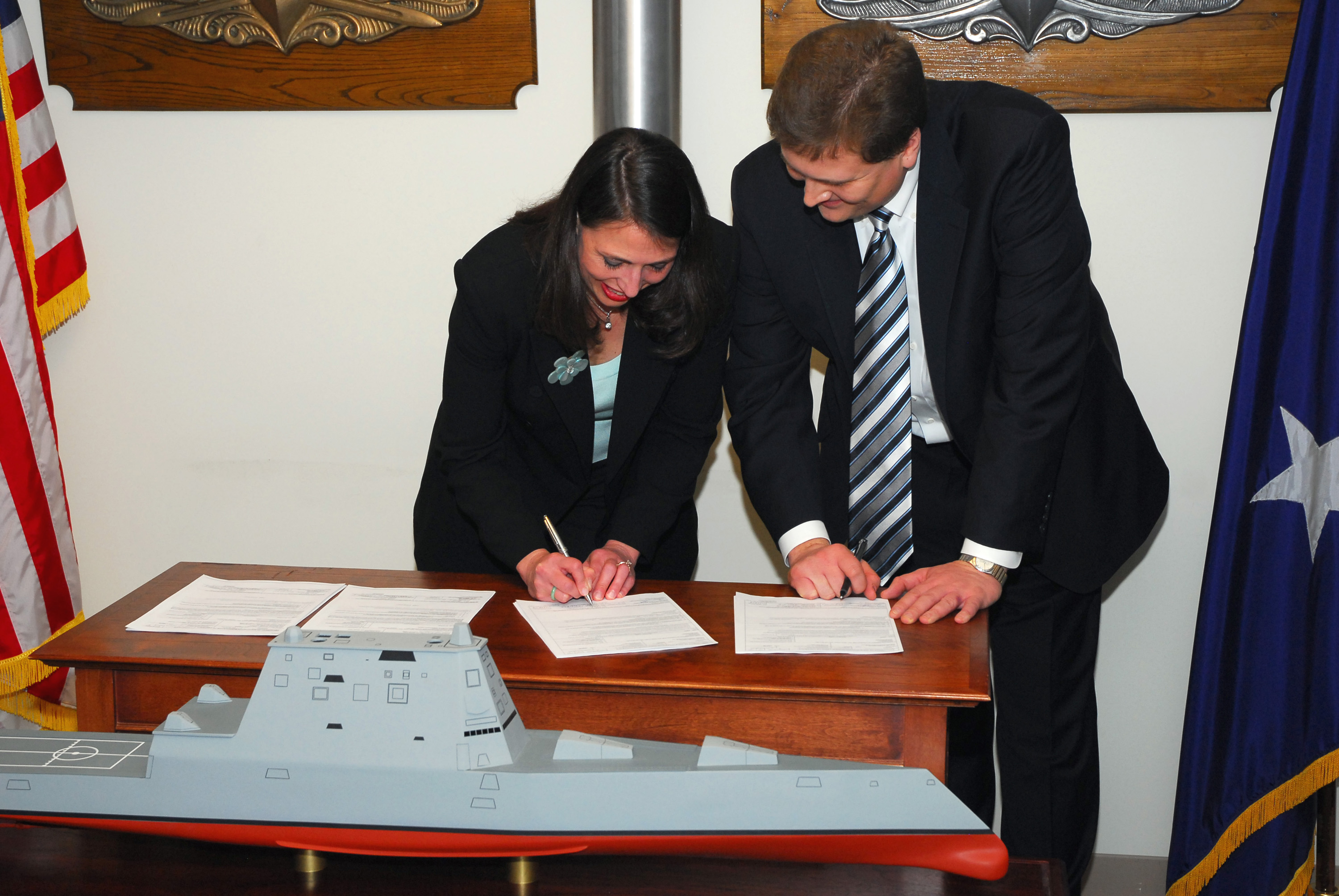 080214-N-0923G-002 WASHINGTON - Susan Tomaiko, left, contracting officer for Naval Sea Systems Command (NAVSEA), and Dirk Lesko, vice president and DDG 1000 program manager for Bath Iron Works, sign a $1.4 billion construction contract for the DDG 1000 Zumwalt Class destroyer at a contract signing ceremony at the Pentagon.